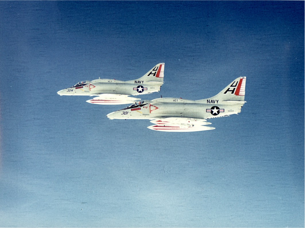 Two U.S. Navy Douglas A-4F Skyhawk (BuNo 155064, 155033) of Fleet Composite Squadron 7 (VC-7) "Redtails" in flight over California (USA), in 1975. Official NMNA text: "Accepted by the U.S. Navy on 30 August 1963, the museum aircraft served in a number of attack squadrons, including Marine Attack Squadron (VMA) 533 and Attack Squadron (VA) 125 before joining VA-153, which took the aircraft into combat on board the carrier Coral Sea (CVA-43) during 1968-1969. The aircraft then joined VA-164, making its second combat cruise in Hancock (CVA-19). Joining VMA-223 in 1970, the aircraft served at Marine Corps Air Stations (MCAS) Yuma, Arizona, El Toro, California, and Kaneohe, Hawaii, until assigned to Composite Squadron (VC) 7 at NAS Miramar, California, in 1975. For the following years it flew as an aggressor aircraft with that squadron and VF-43, after which it was assigned to the U.S. Navy Flight Demonstration Squadron, flying with the Blue Angels until 1986."